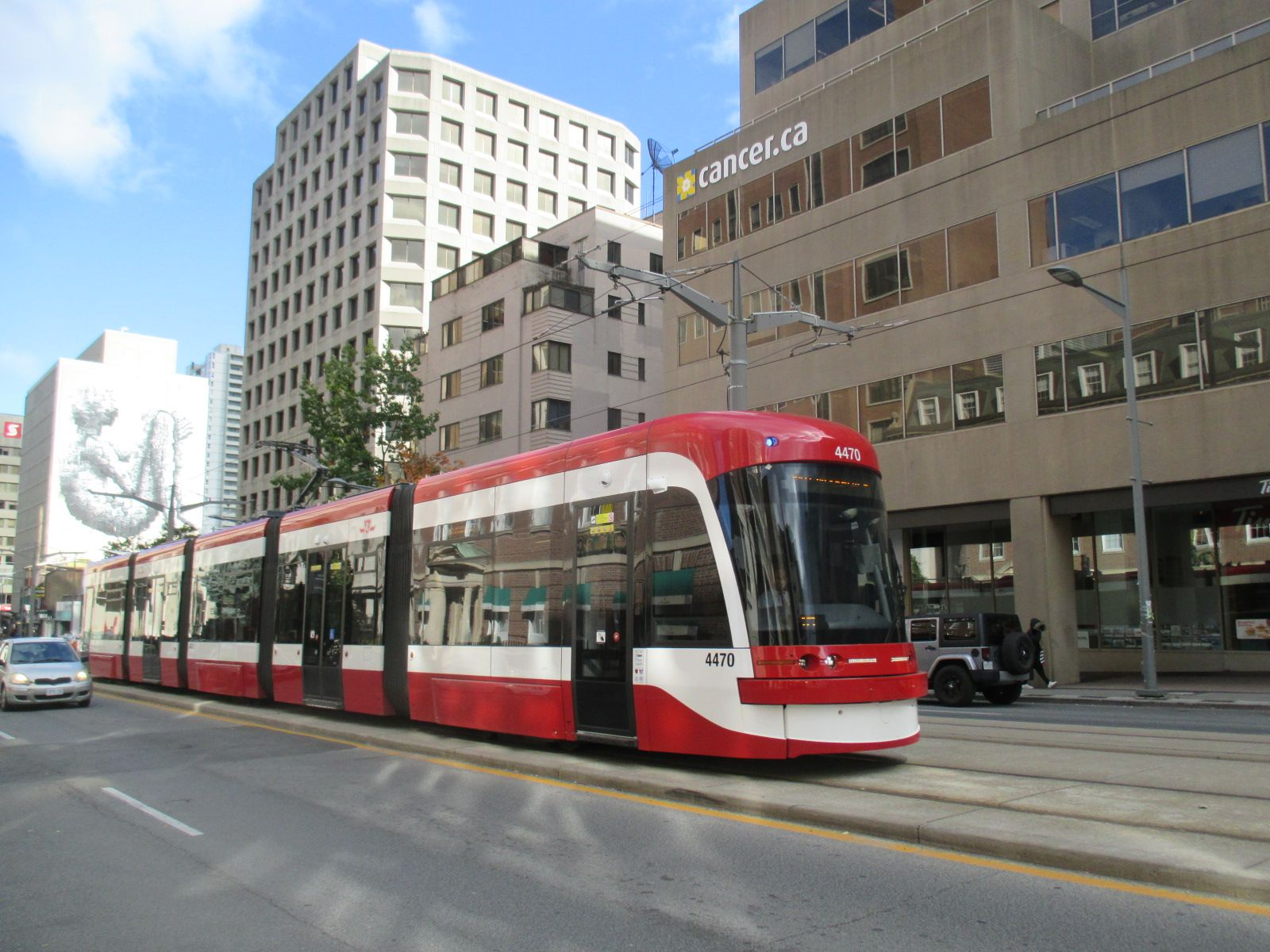 TTC Flexity Outlook streetcar 4470 on route 512 St. Clair heading westbound on St. Clair Ave W just west of Yonge St